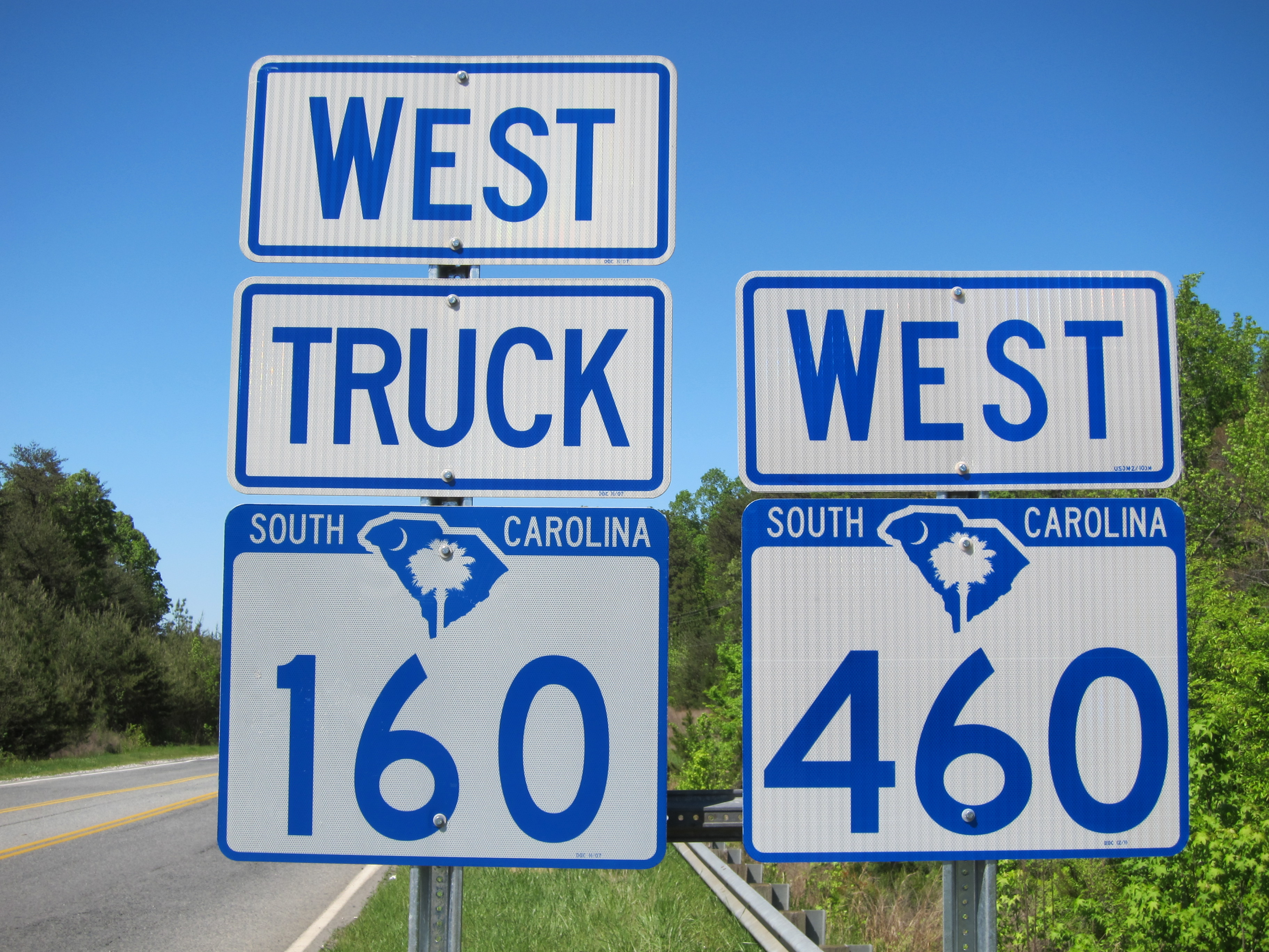 South Carolina Highways Truck 160 and 460, westbound in Fort Mill, South Carolina.